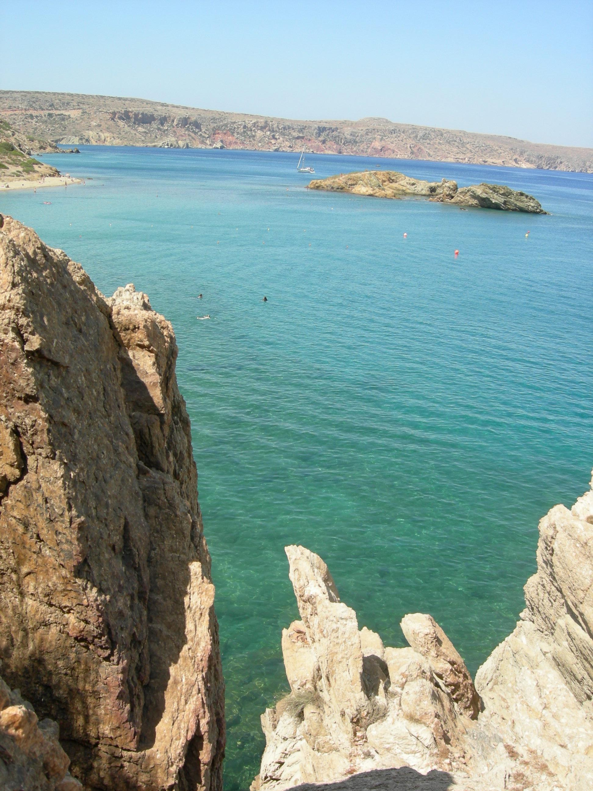 View of Vai Beach